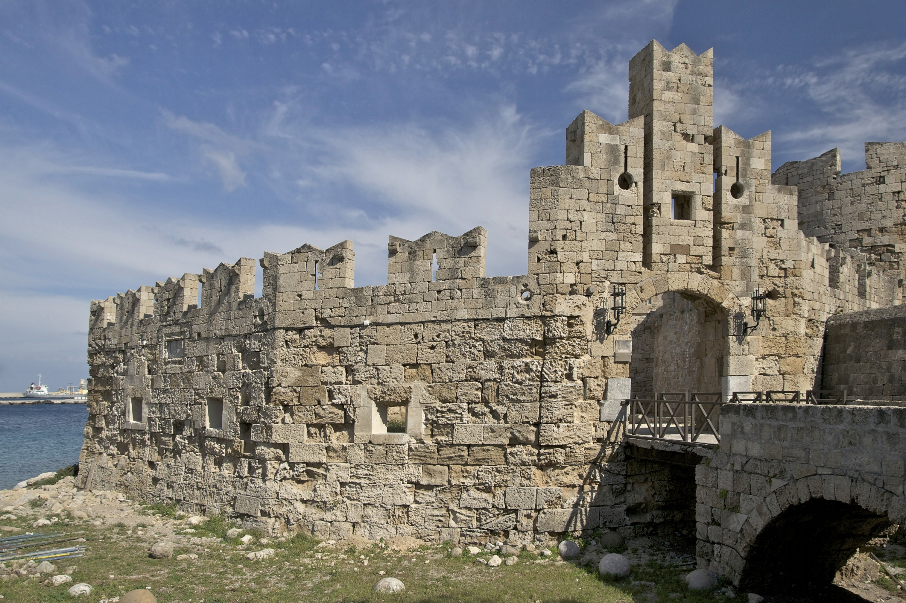 Saint Paul's Gate, in the medieval fortifications à Rhodes, Greece.